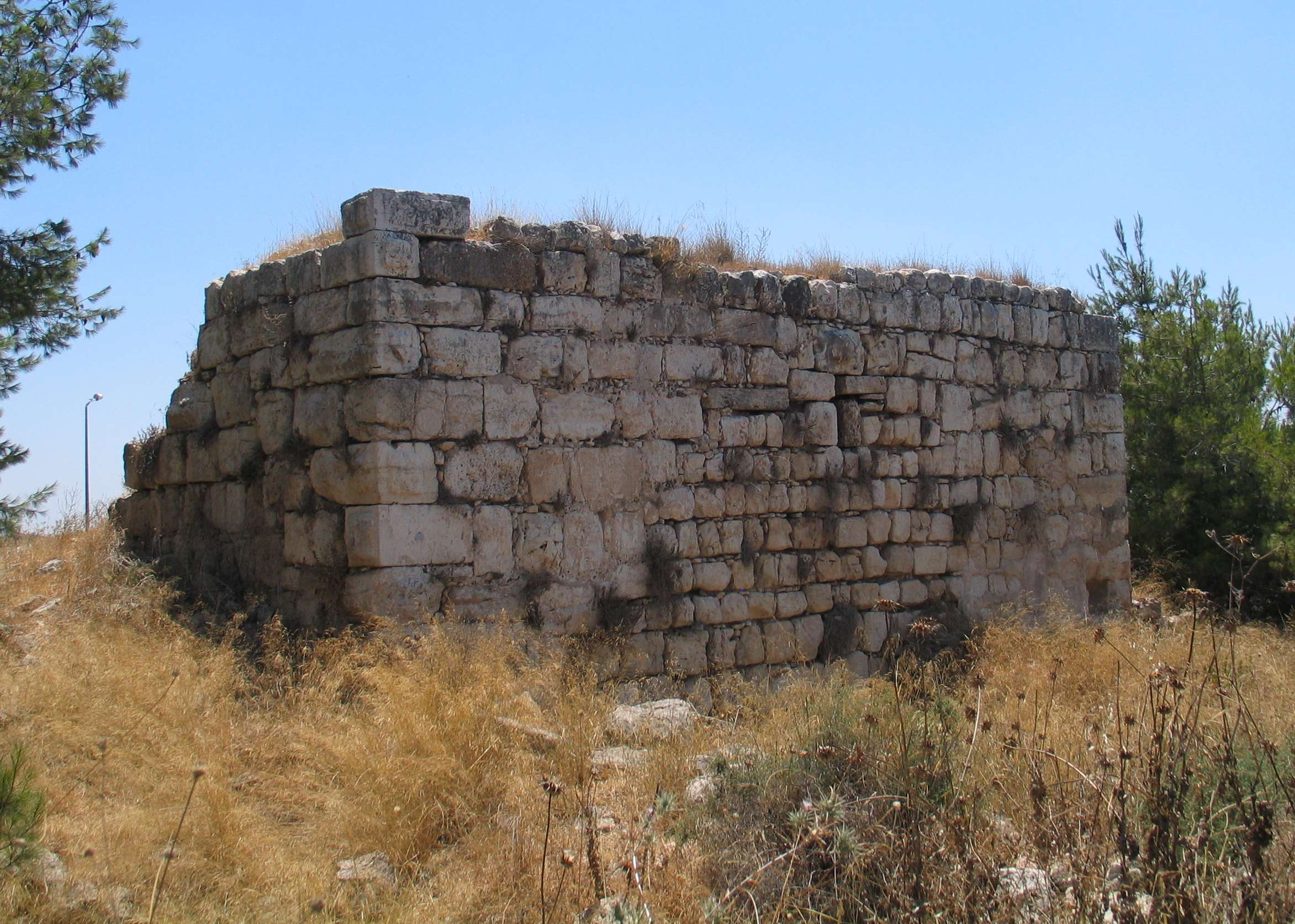 Remains of a crusader tower of Cola (Chola), north of Givat Koach junction, Israel.